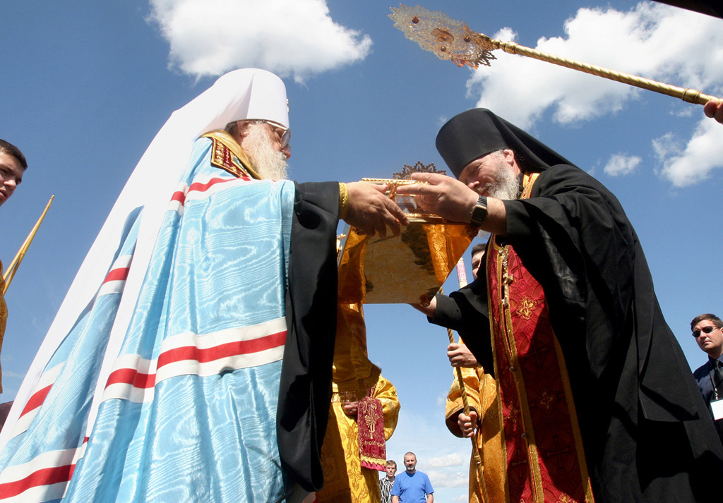 “Christian relic arrives in Minsk”. The clergy of Minsk, capital of Belarus, meet at the city airport the relic-case containing the right hand of St. John the Baptist, one of the most cherished Christian shrines, which has arrived by special flight from Rostov-on-Don